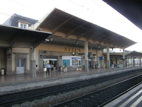 Ávila Railway Station in the city of Ávila, Spain, in July 2009.